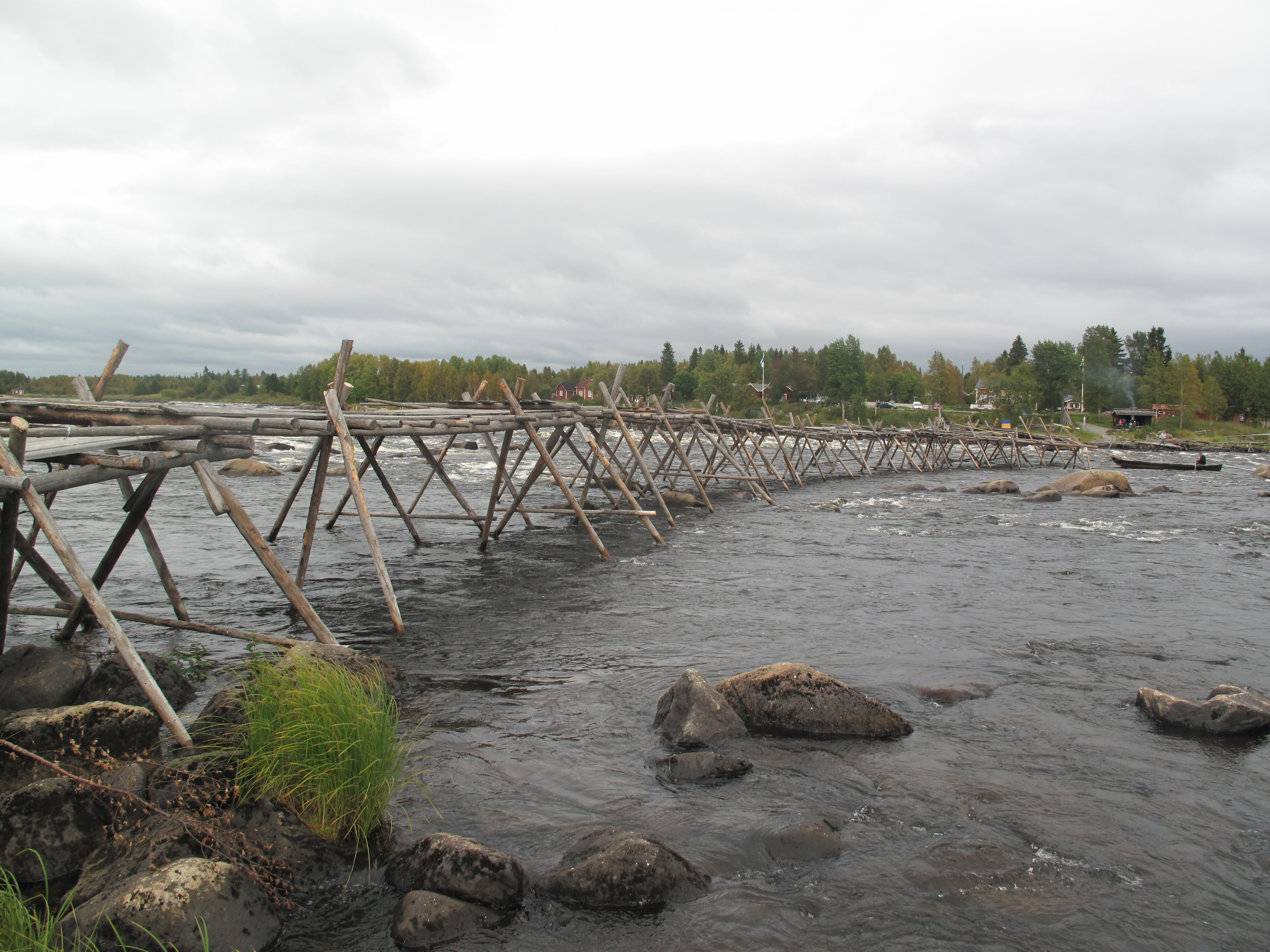 A classic pier by Kukkola Rapids, Haparanda Municipality, Sweden. Photo taken in the Swedish side of the Torne River.